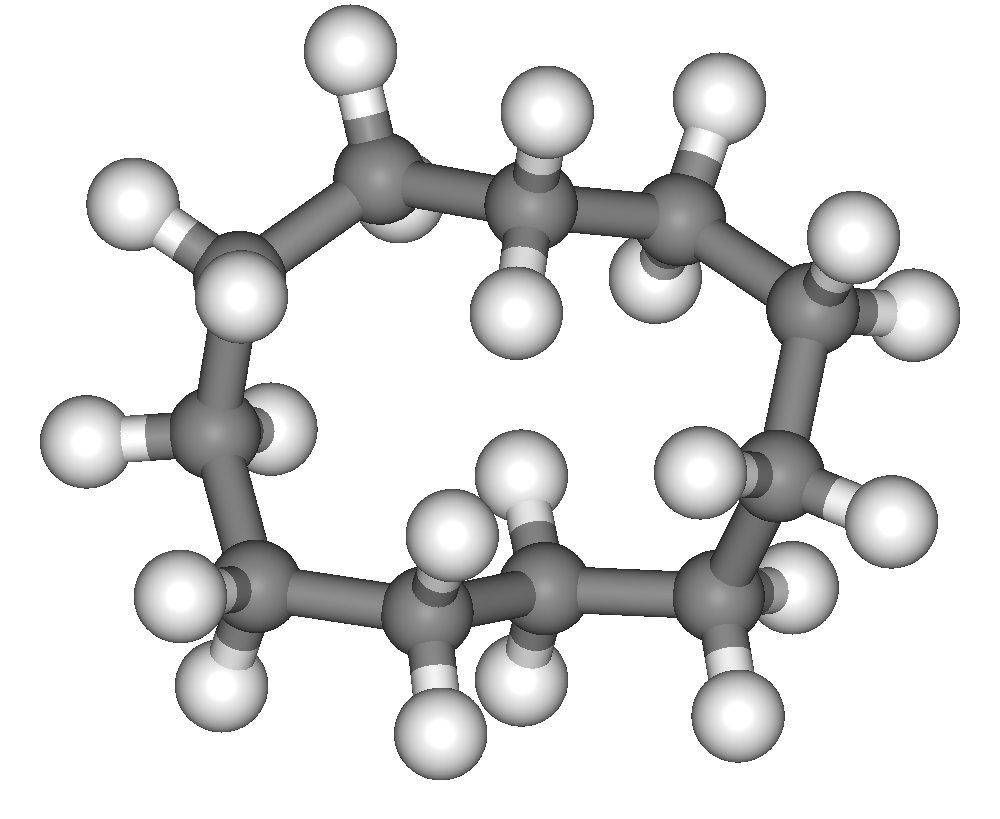 chemical structure of cycloundecane